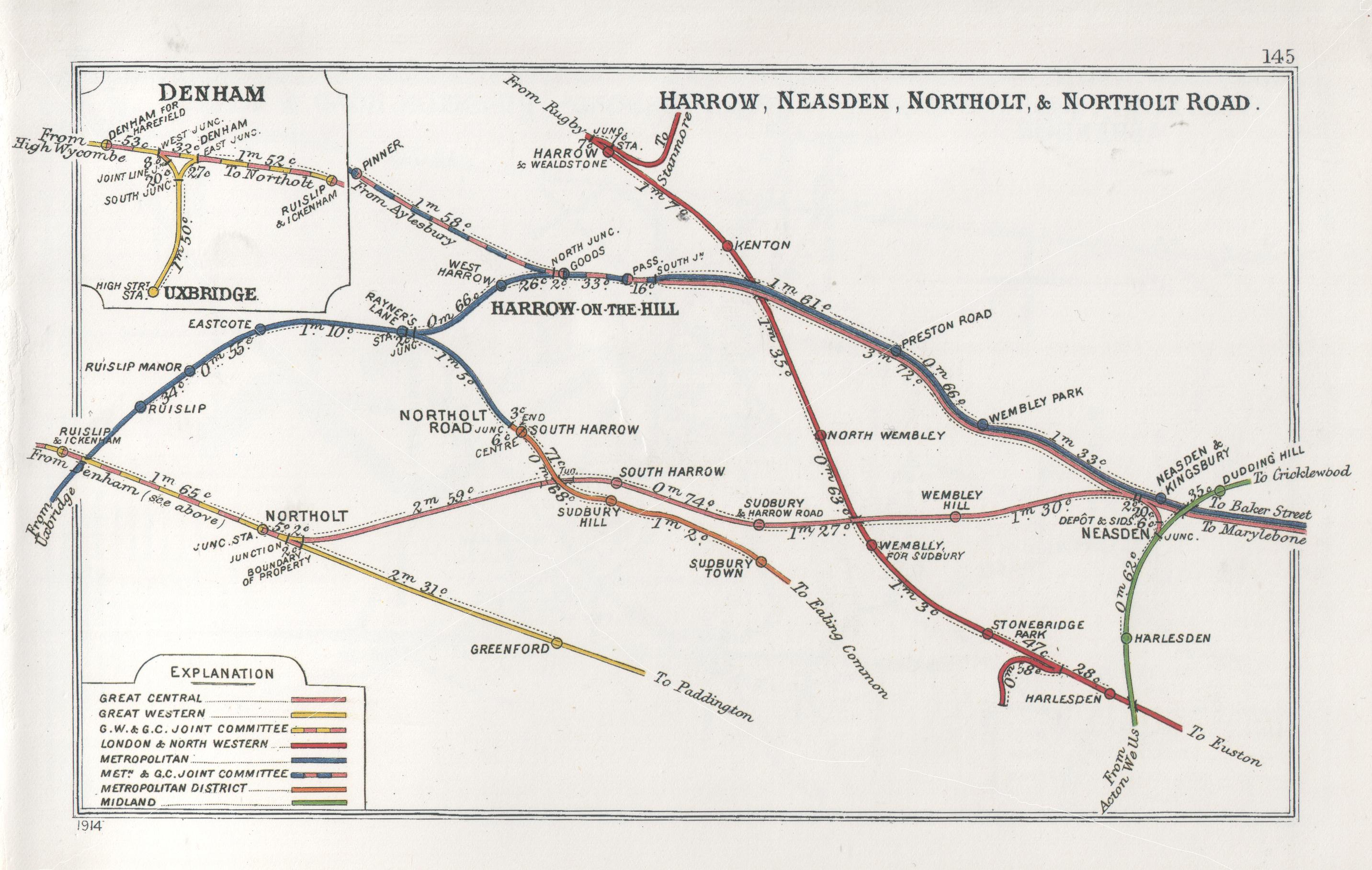 Denham; Harrow, Neasden, Northolt & Northolt Road RJD